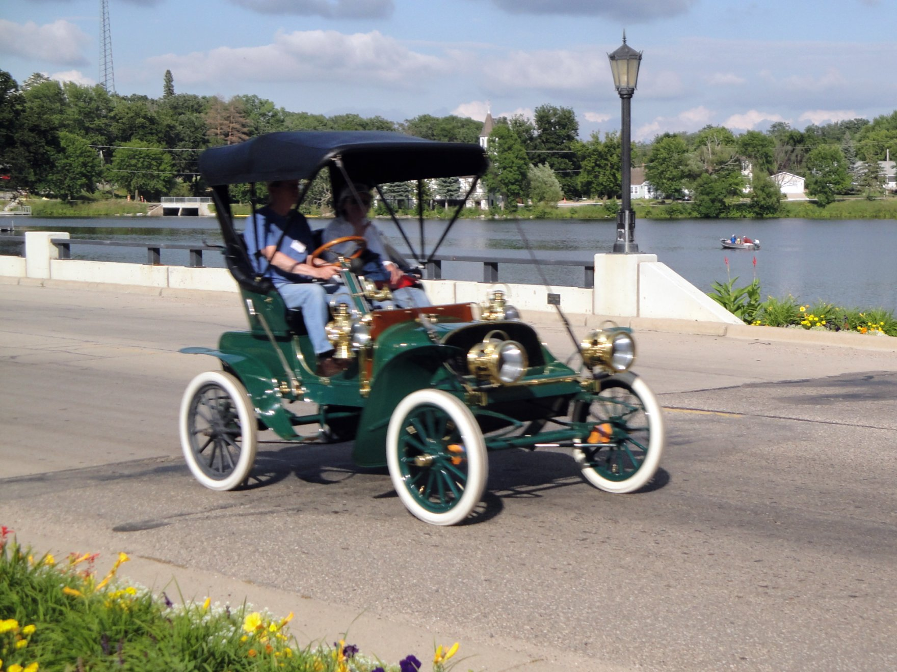 Silver Anniversary New London to New Brighton Antique Car Run August 12, Pre-Tour